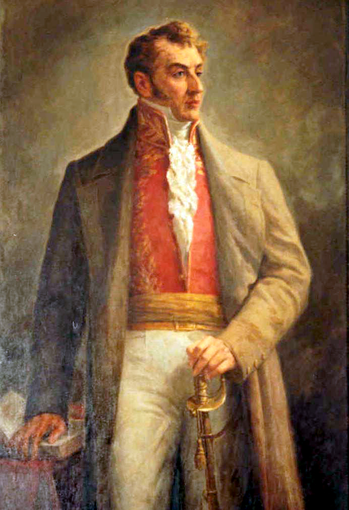 Oil Painting of Antonio Nariño. Original located in the Office of the President of the Republic, in the House of Nariño, Bogotá, Colombia.